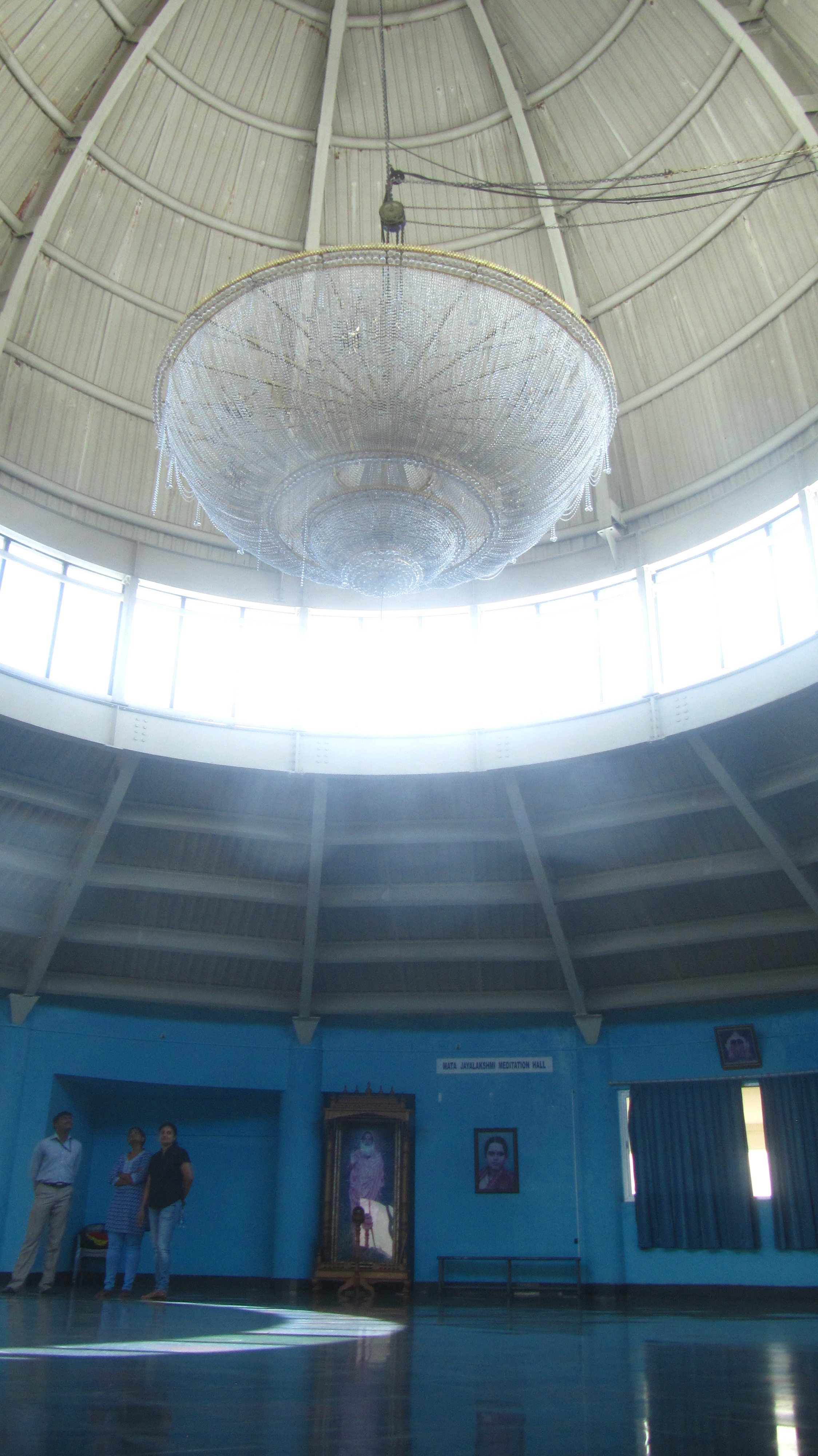 The central dome of the Mata Jayalakshmi Meditation Hall at GSSS, Mysore